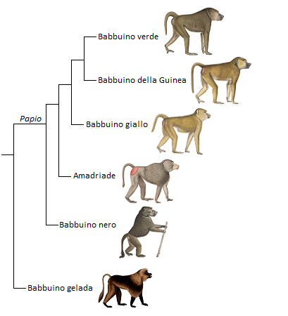 Phylogeny of baboons based on Zinner, D., Arnold, M. L., Roos, C., 2009. Is the new primate genus Rungwecebus a baboon? PLos ONE 4